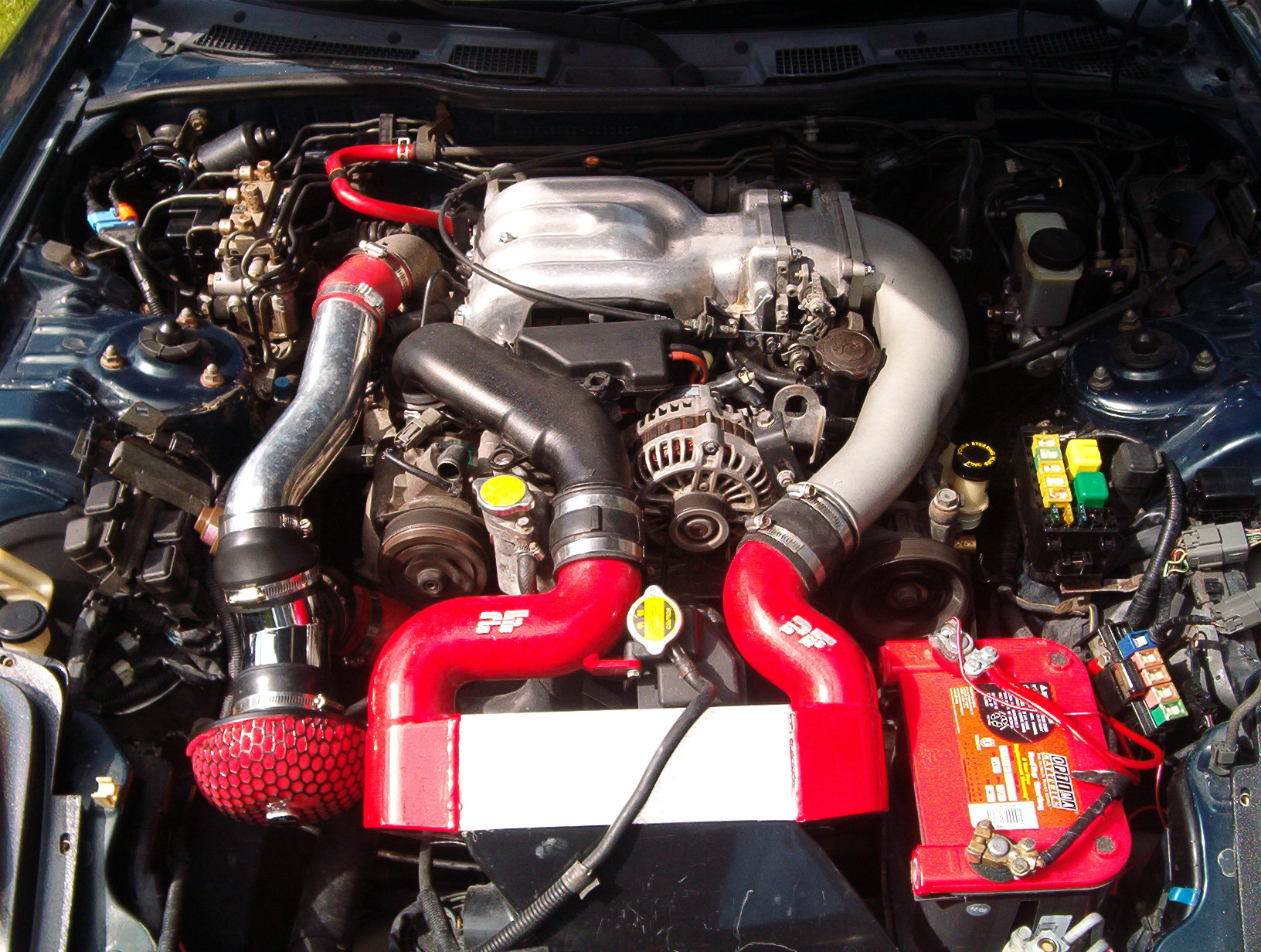 Mazda RX7 engine bay with Peter Farrell top mount intercooler.